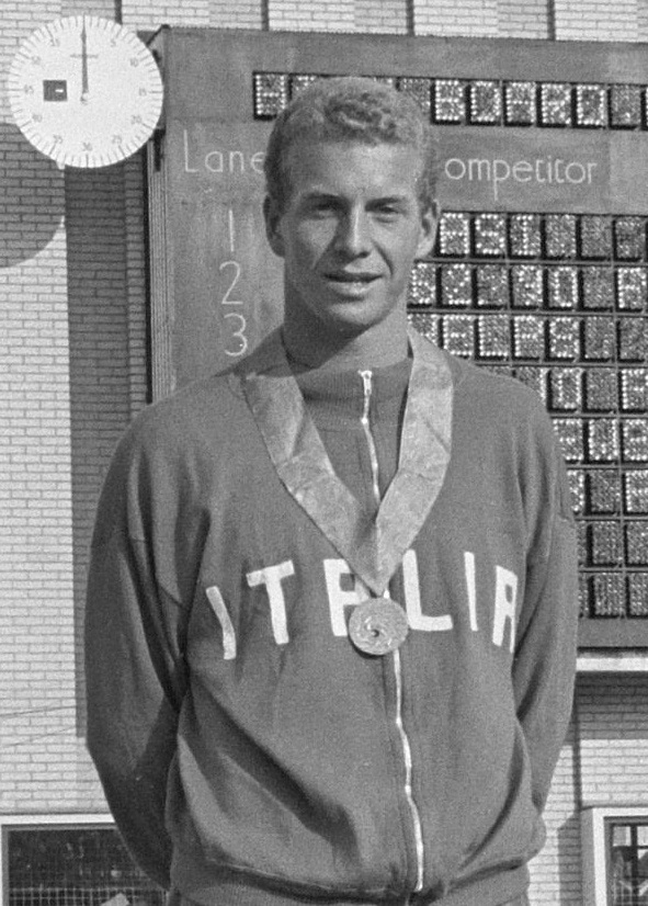 Klaus Dibiasi, 10 m platform diving podium European Championships